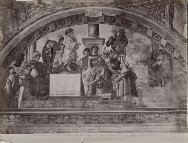 "San Giacomo Maggiore e il miracolo degli uccelli selvatici", by Melozzo da Forlì, located in the Cappella Feo (completely destoryed after 1944 bombing) in Chiesa di San BIagio (Forlì)